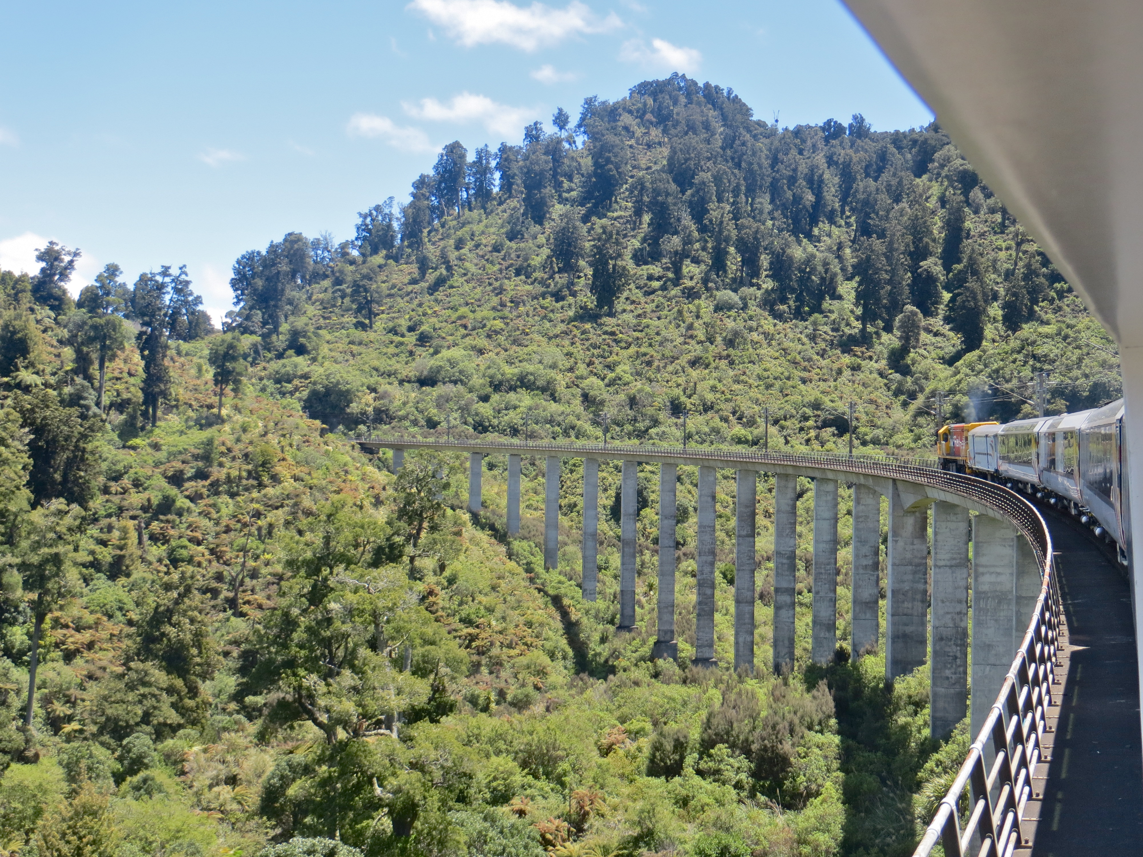 414m long 51m high opened 29 June 1987 to replace 1909 viaduct 286m long 43m high - old viaduct is now a cycleway